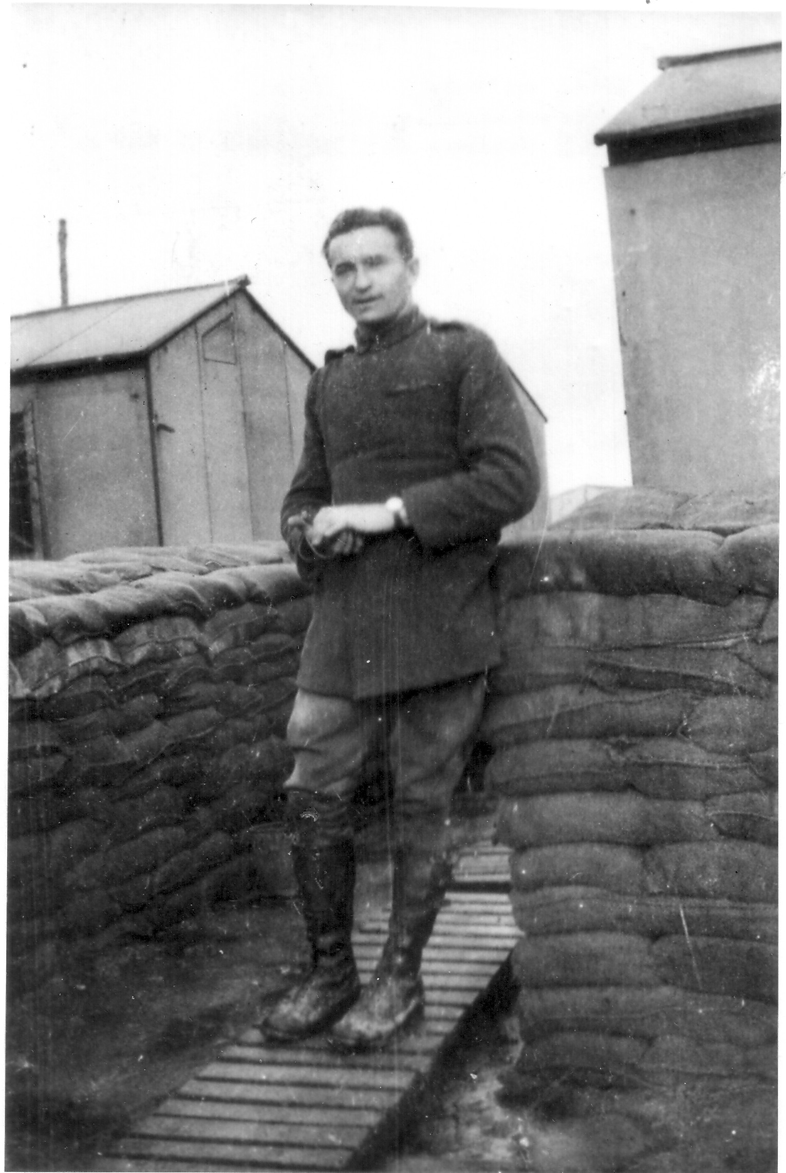 Photograph of Alfred Edwin McKay, Canadian fighter ace. Taken in 1917 by a friend. Photograph is now available to the public at the London Regional Archives in London, Ontario.